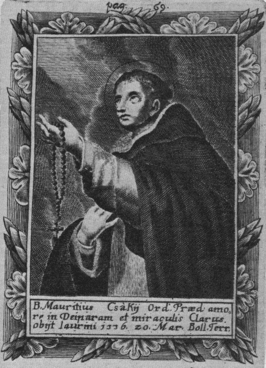 Blessed Maurice Csák (lithography)